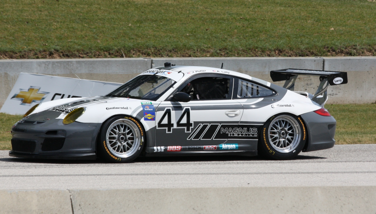 The Marsh Racing GT car driven by Andy Lally and John Potter at a 2012 race at Road America.